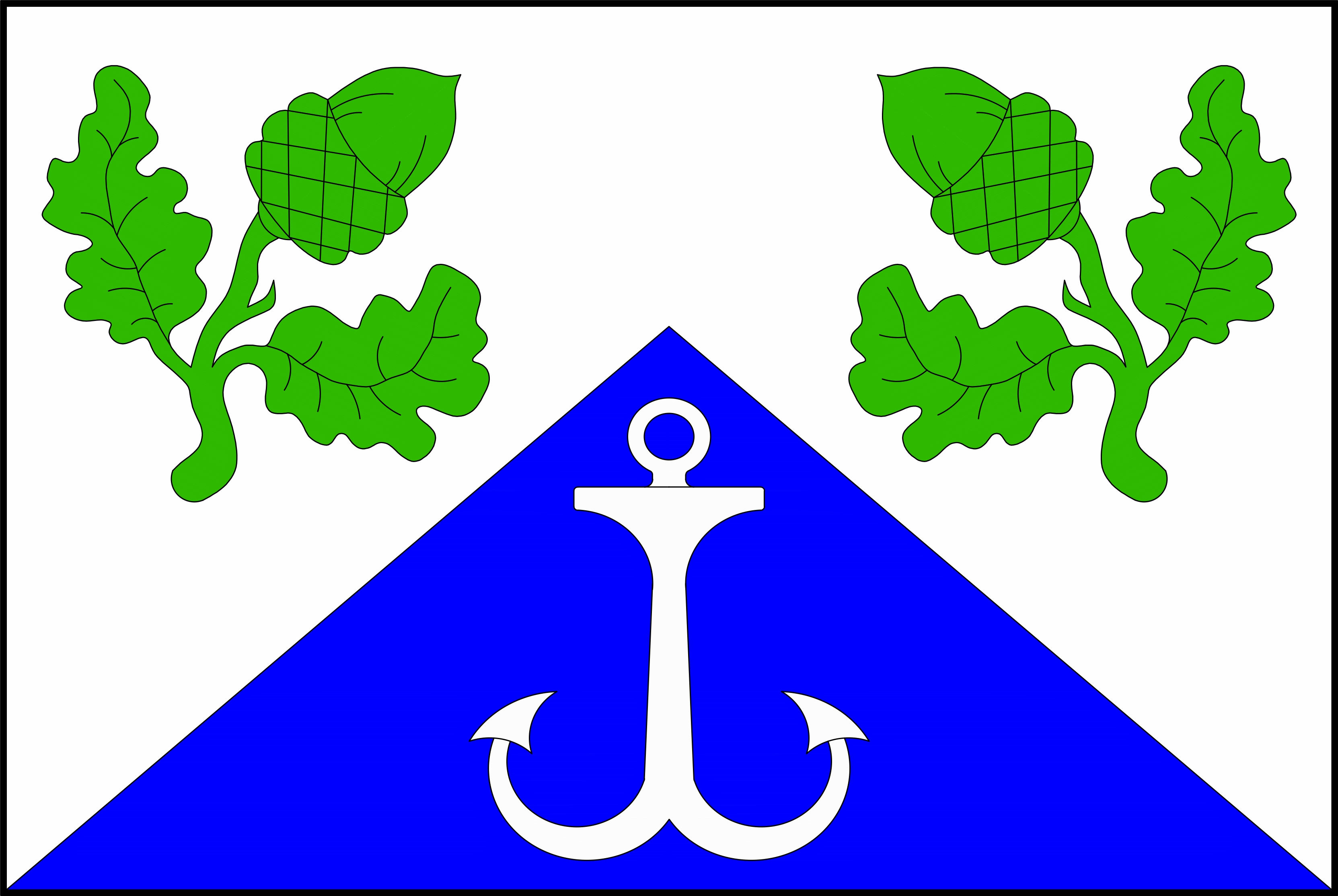 Municipal flag of Dobkovice village, Děčín District, Czech Republic.